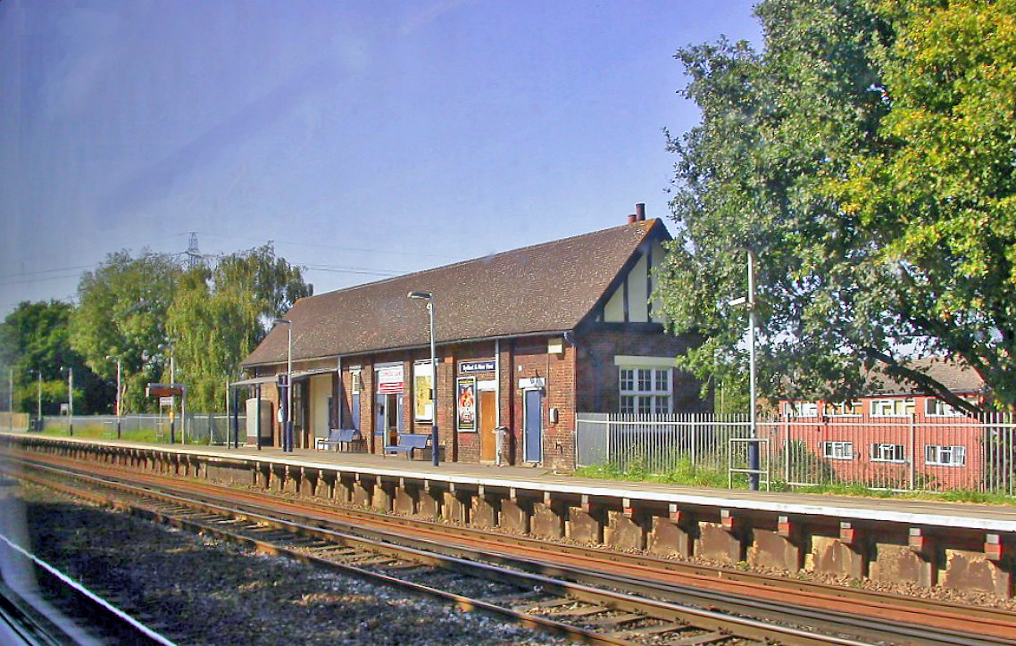 Byfleet & New Haw station, Up Slow line platform. View westward, taken from a Down train, towards Woking and the West: ex-LSWR Waterloo - Woking and the West main line. Station was 'West Weybridge' until 12/6/61.